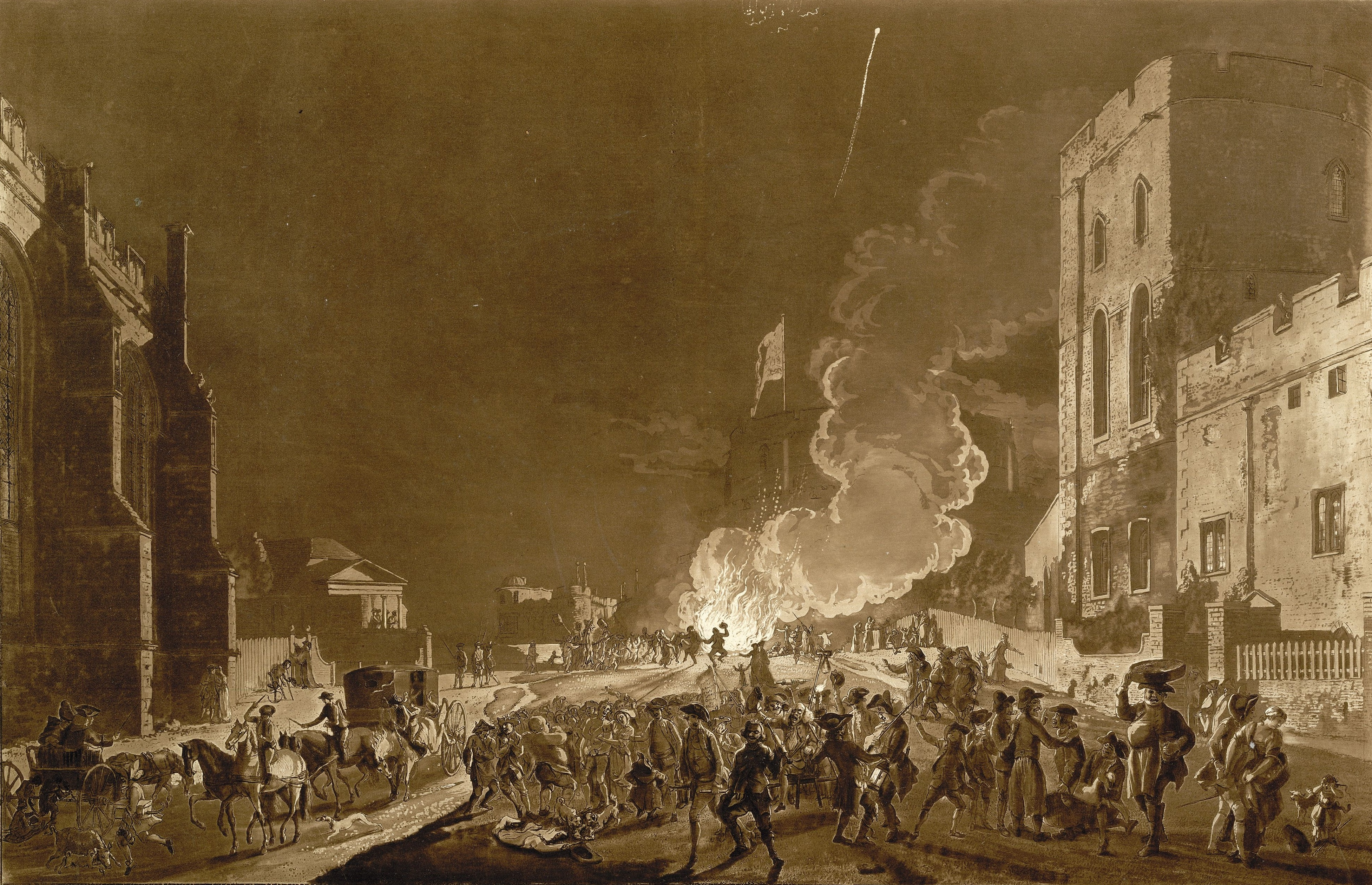 festivities in Windsor Castle during Guy Fawkes night: one of a group of four prints of Windsor Castle